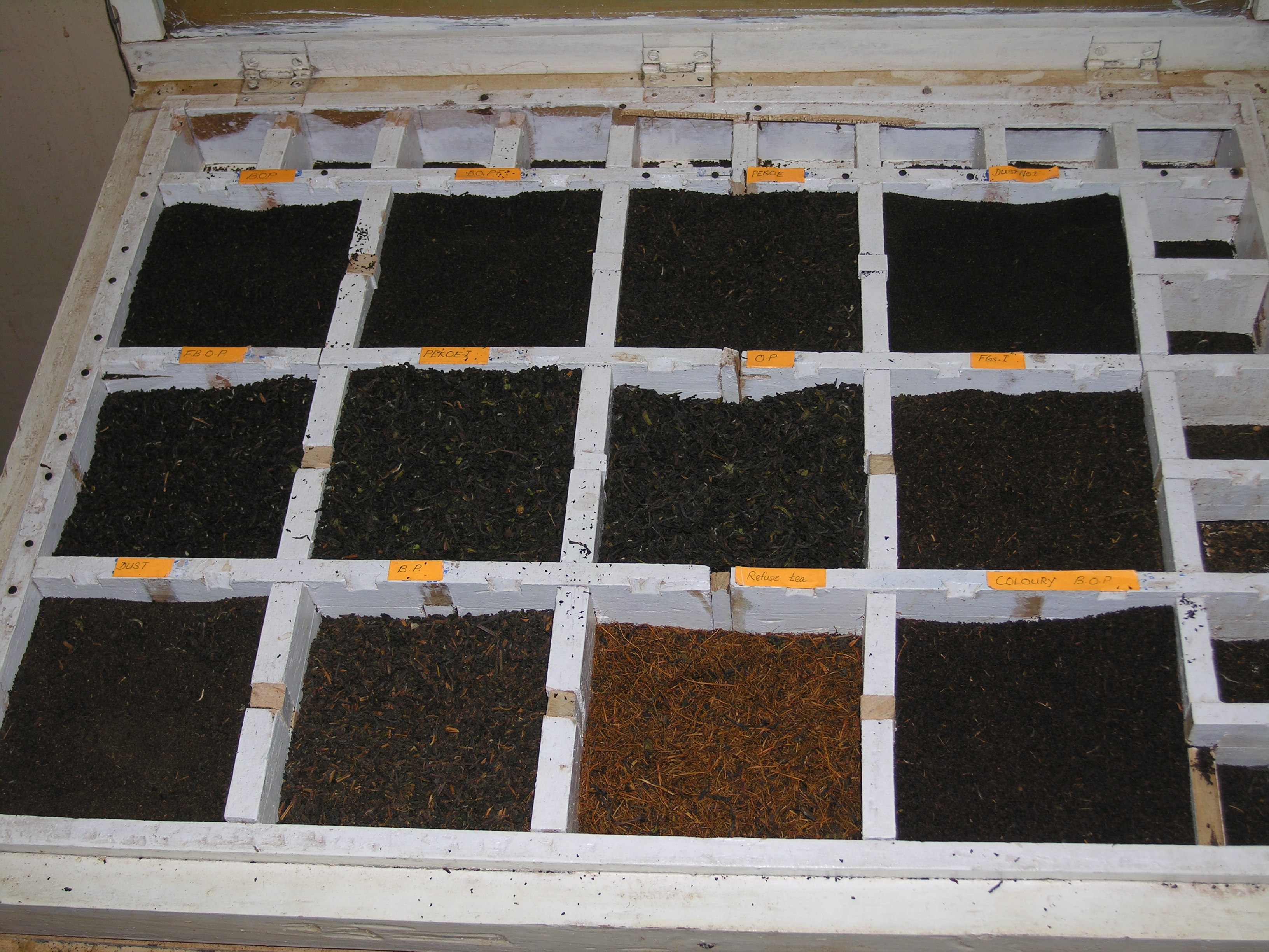 Different types of tea in Sri Lanka, picture taken in a tea Factory near Nuwara Eliya